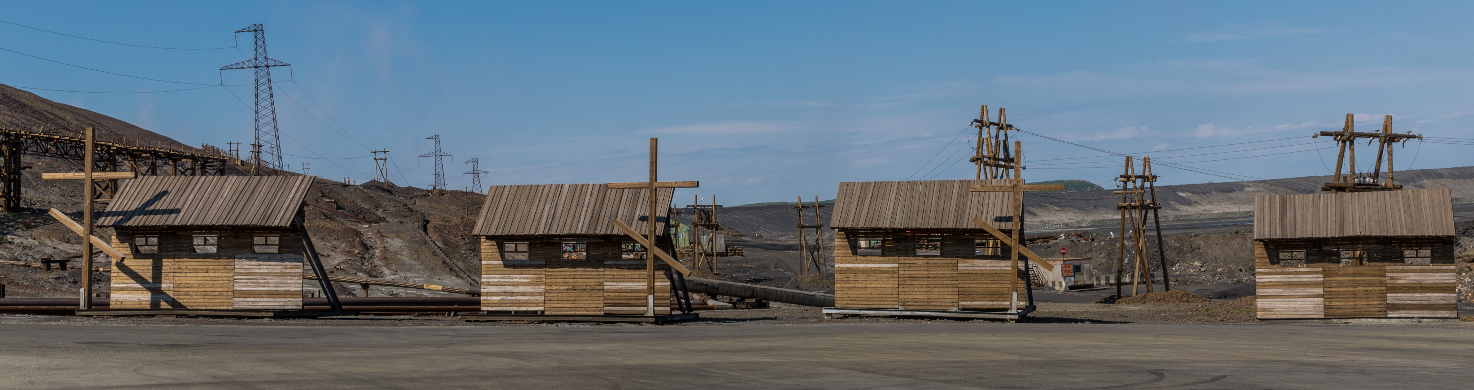 Memorial for Gulag victims in Norilsk "Golgotha"